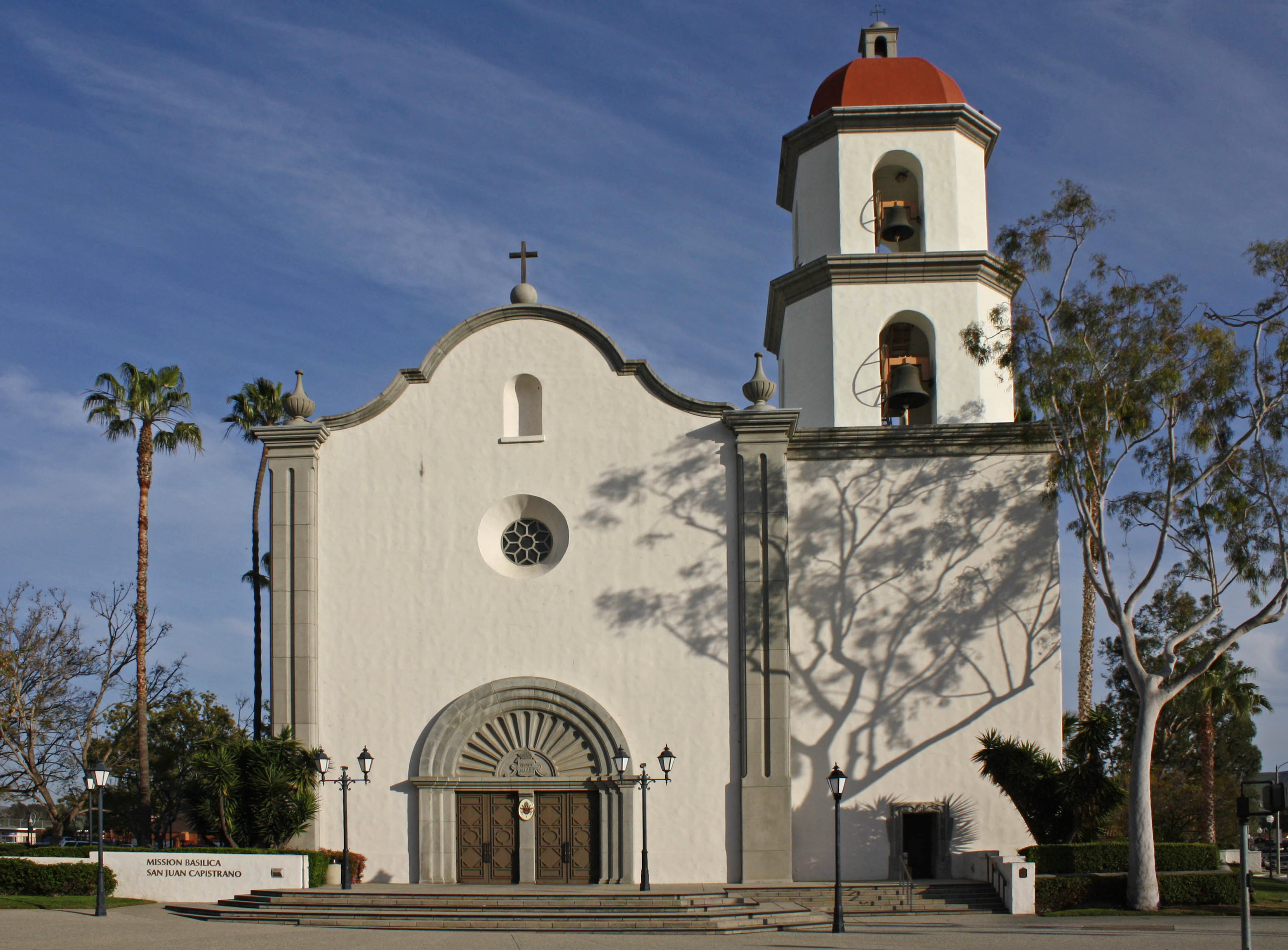 Mission Basilica San Juan Capistrano, San Juan Capistrano, California